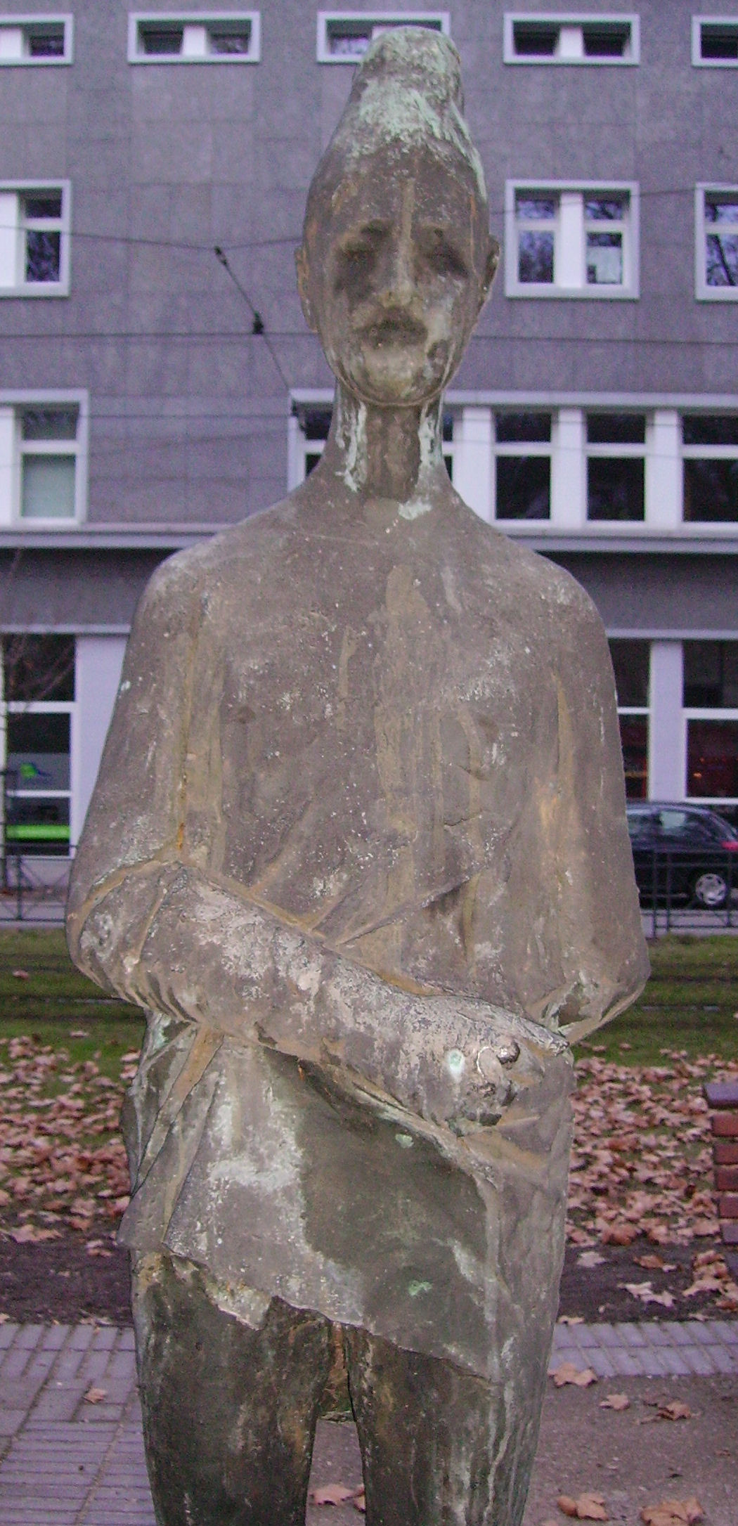 in Ludwigshafen, Germany